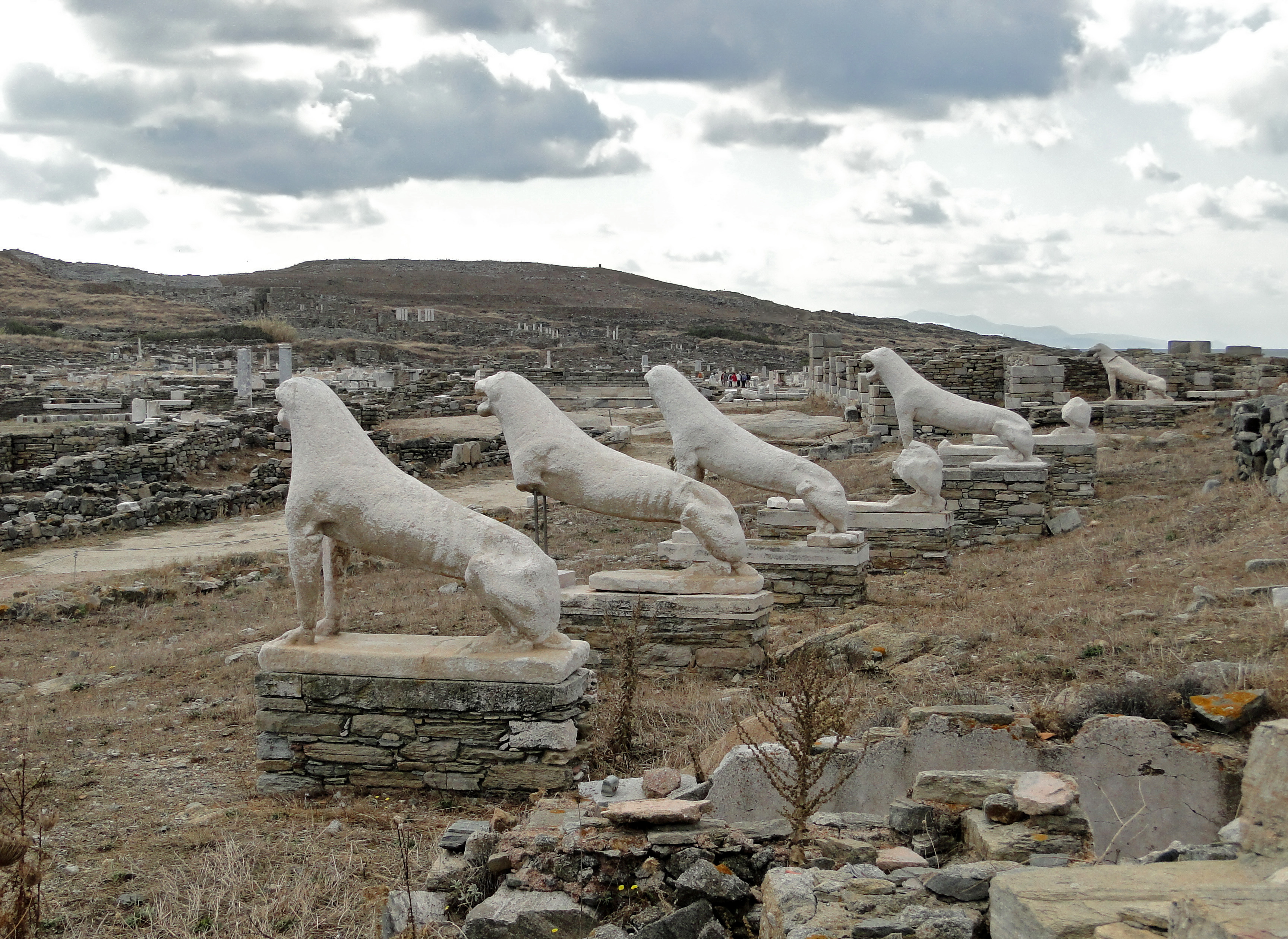 Terrace of the Lions in Delos, Greece